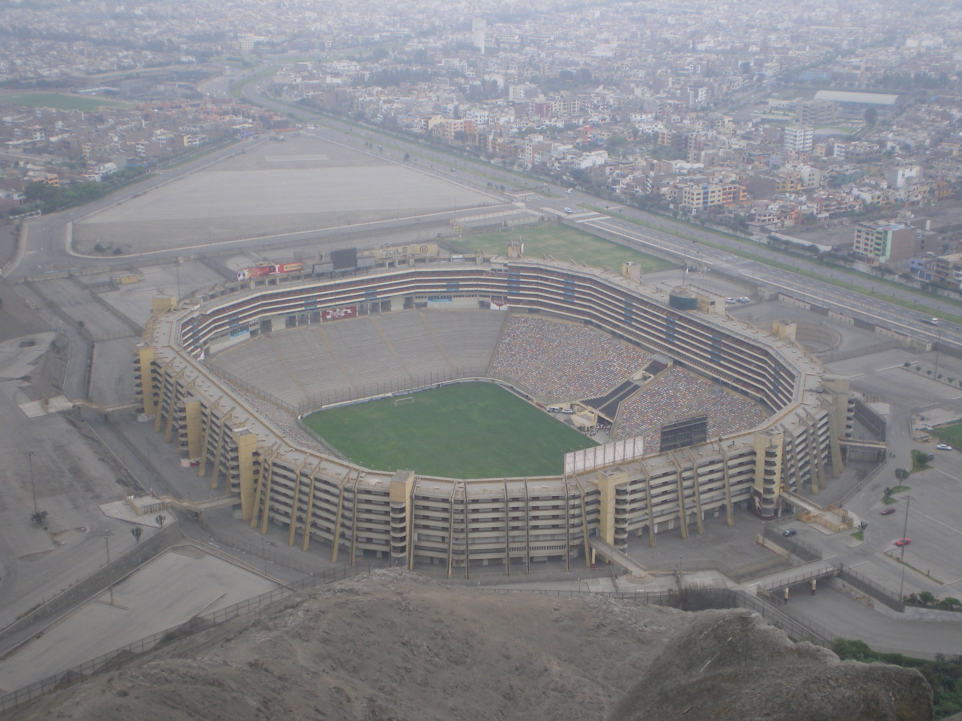 A panoramic view of the Estadio Monumental in Lima, Peru